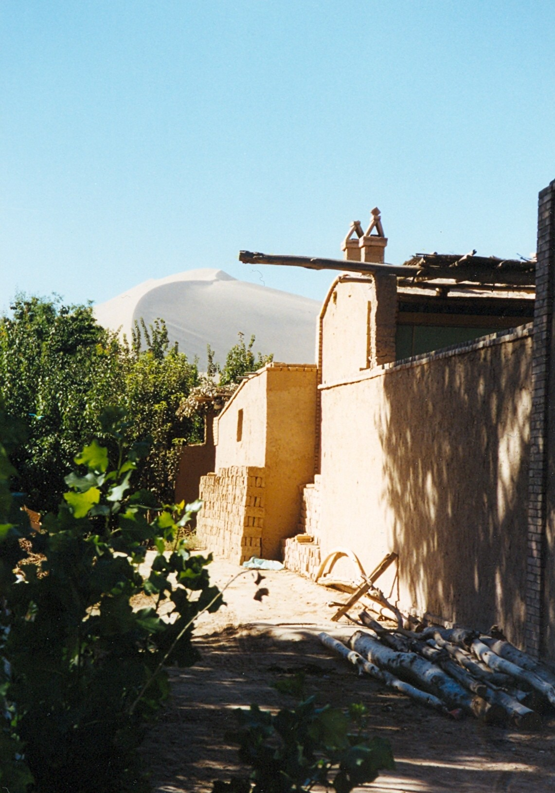 House dwarfed by the Mingsha Shan dune, Dunhuang, Gansu, China.